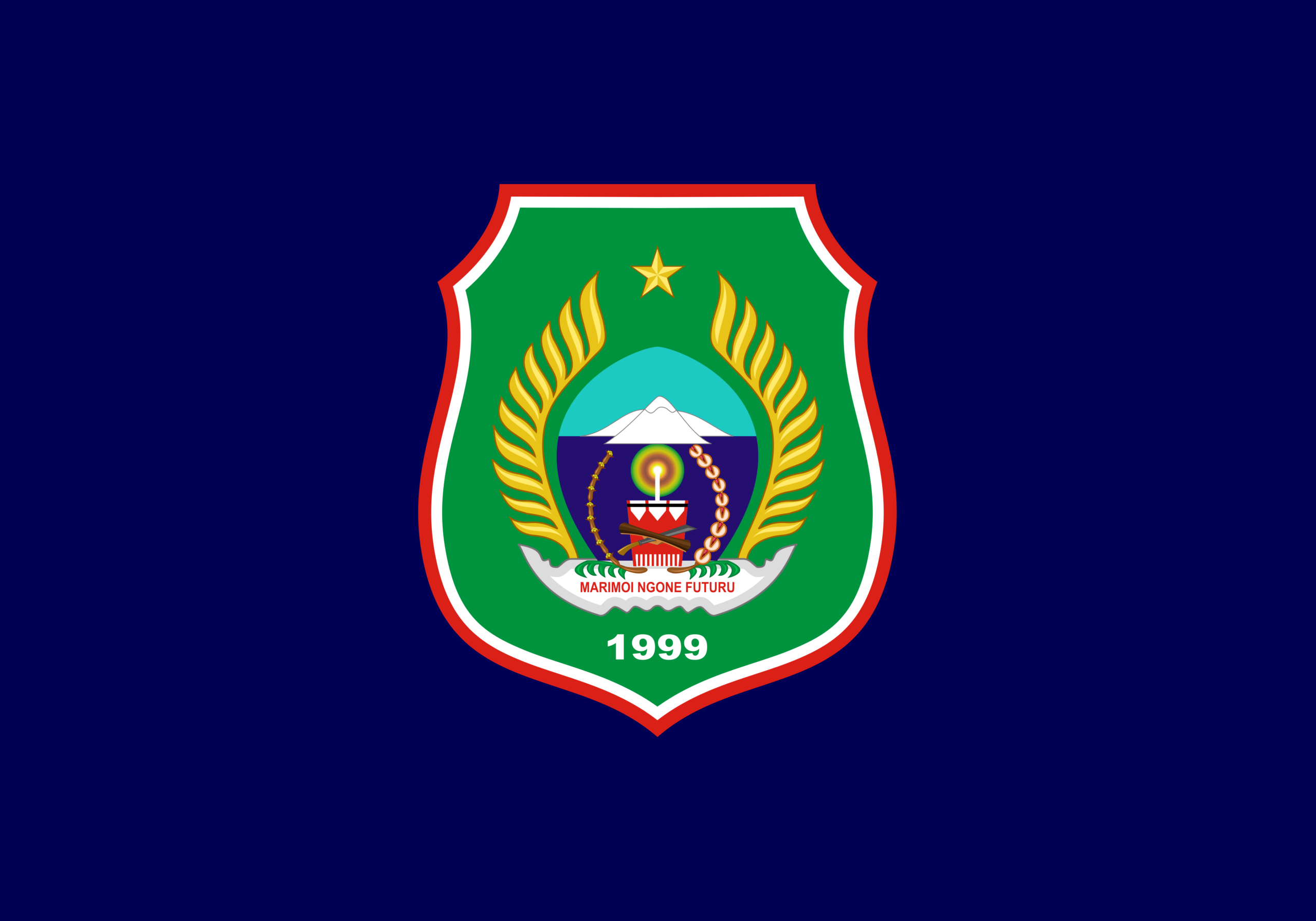 Flag of North Maluku, See legal regulation about the flag.